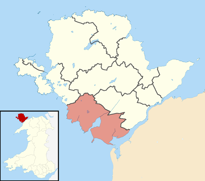 Location map of Bro Aberffraw electoral ward on the island of Anglesey / Ynys Mon